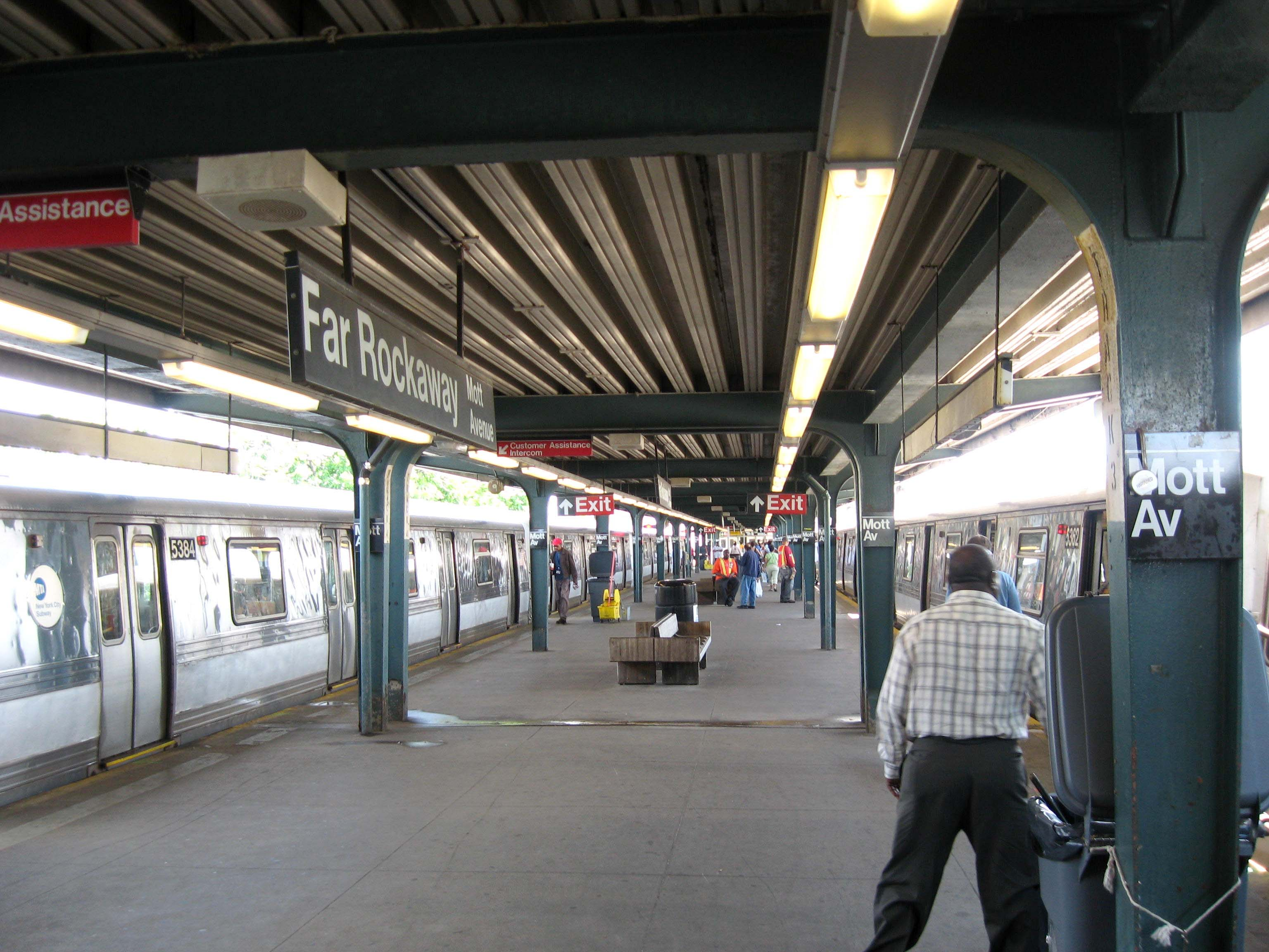 Looking east on the platform of Far Rockaway–Mott Avenue (IND Rockaway Line) under roof on a sunny midday